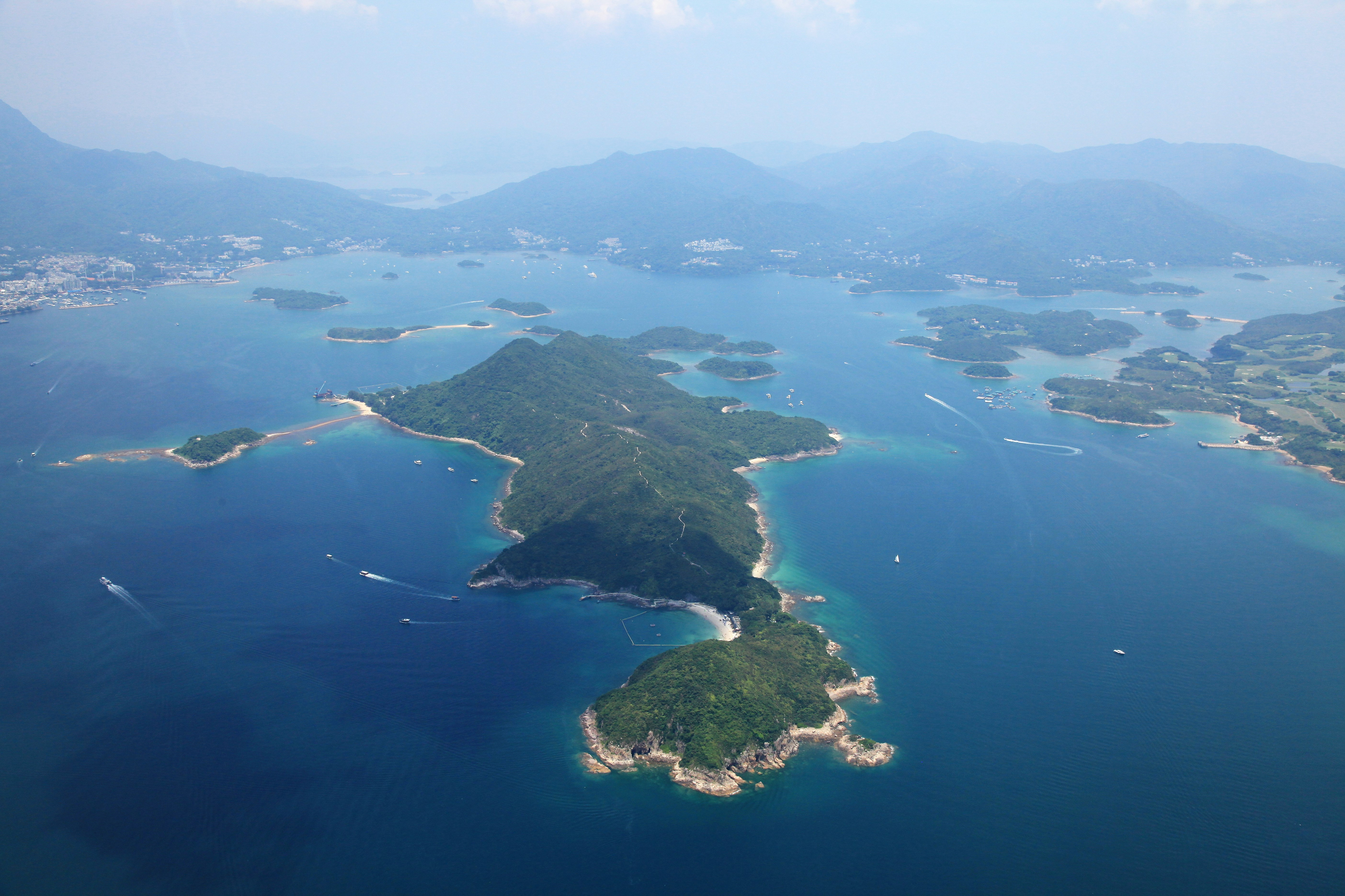 Overlooking islands dotted across Port Shelter, Pak Sha Chau (Sai Kung) is the small island with tombolo located to the Northwest of Kiu Tsui Chau the biggest island centered in the photo.